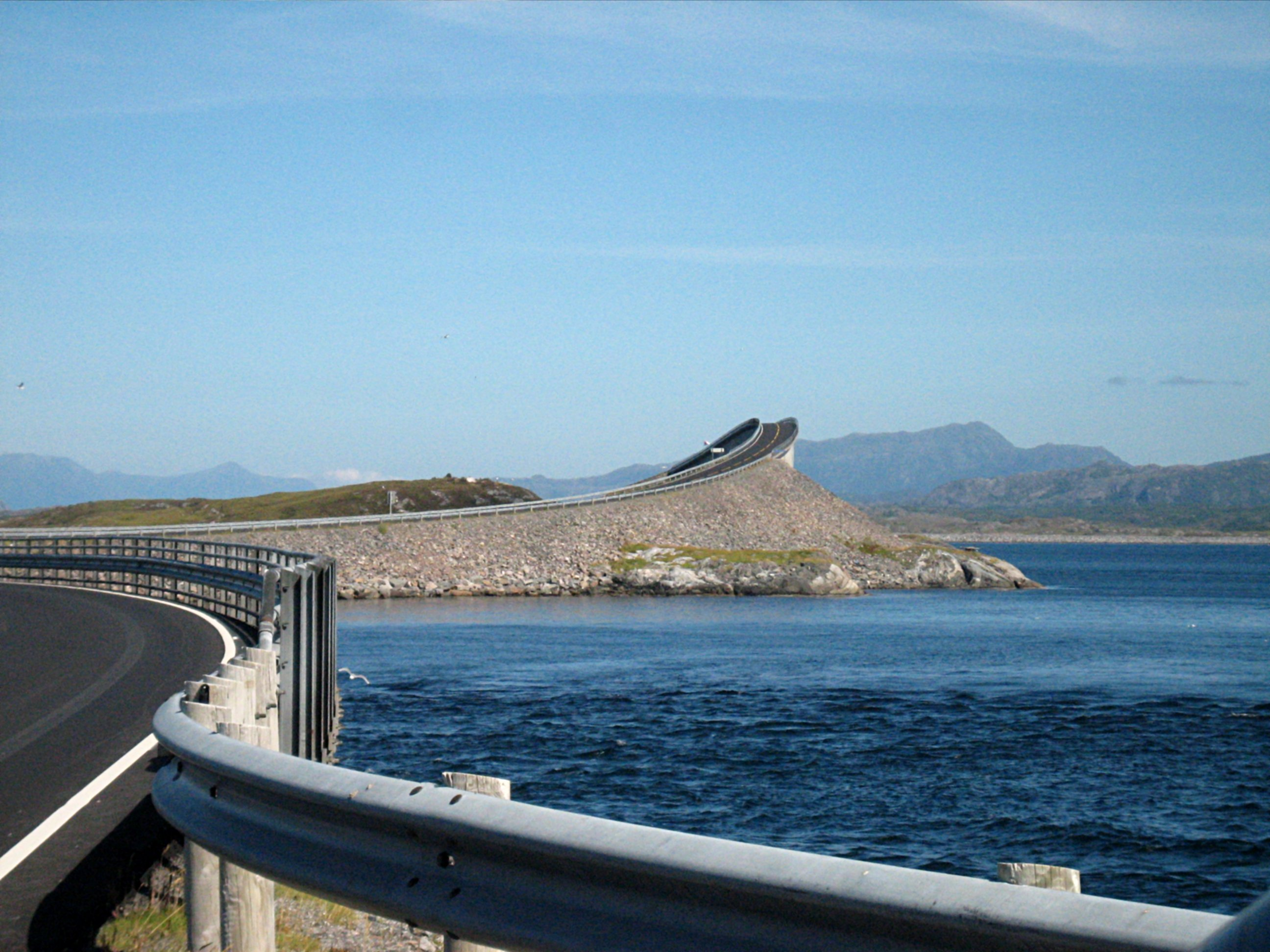 The Storlauvøybrua, the biggest bridge of the Atlanterhavsvegen in the district of Møre og Romsdal in Norway